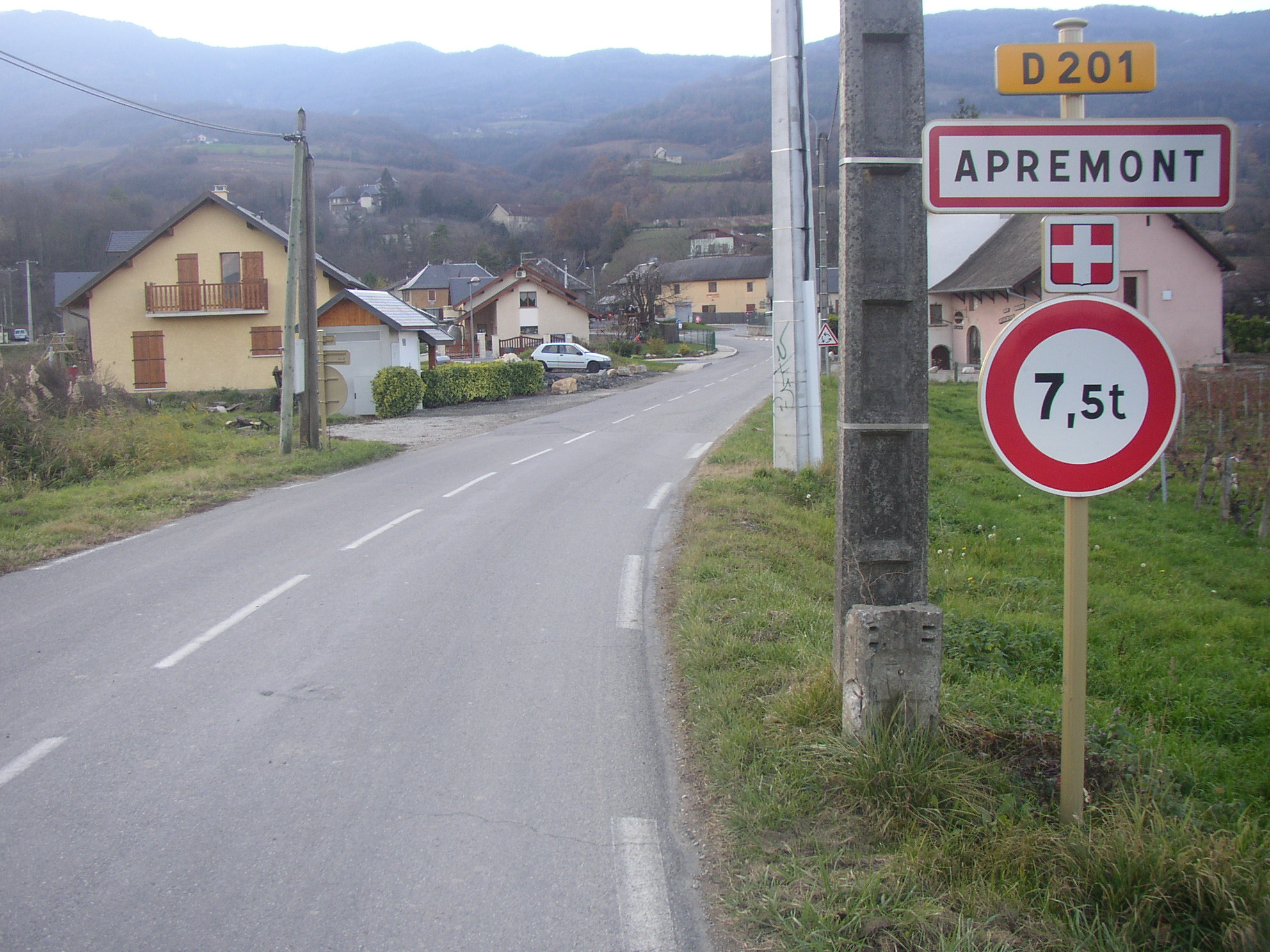 Sign welcoming visitors to the city of Apremont in the French department of Savoie.